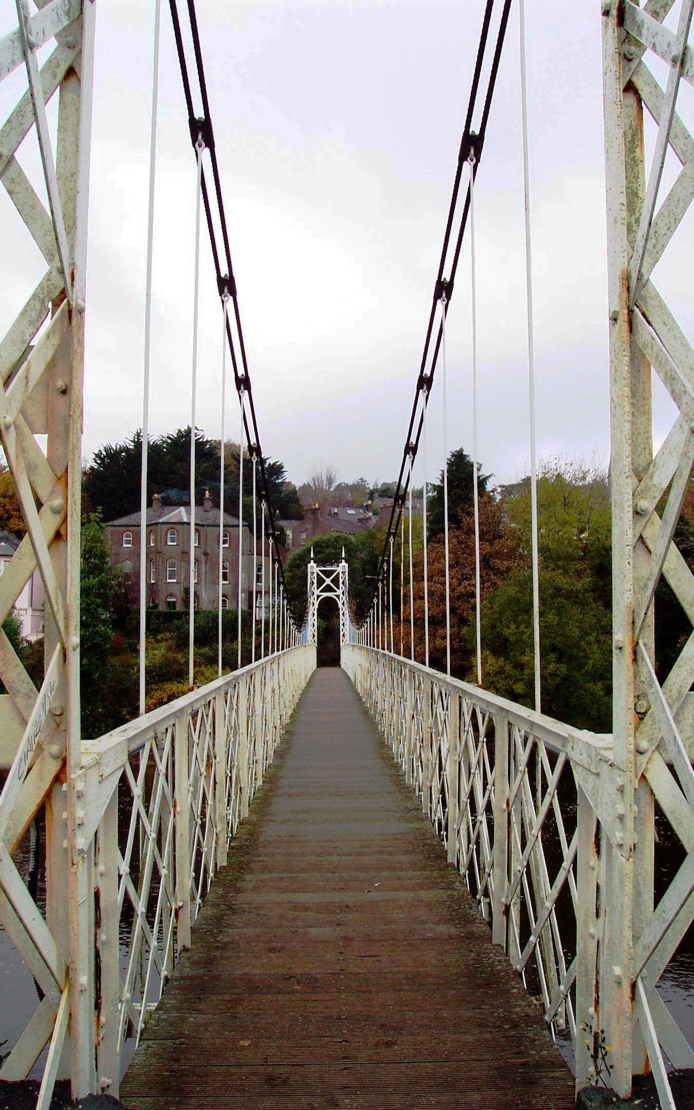 View of Daly's Bridge (The Shakey Bridge) in Cork City in Ireland